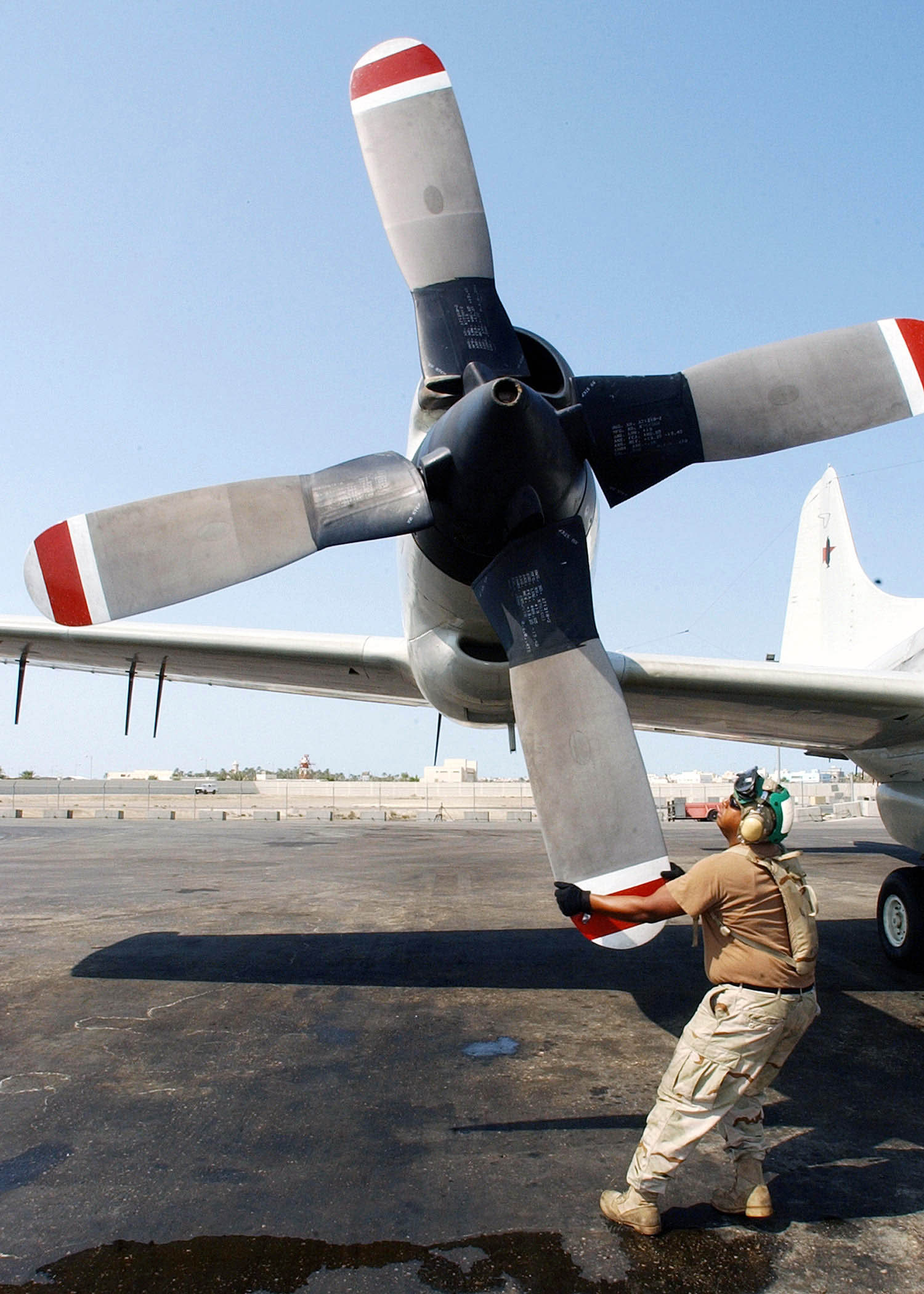 Aviation Electrician's Mate 3rd Class David Pennington rotates the propeller on an EP-3E Orion's number four engine as part of preflight checks prior it departing on its next mission.